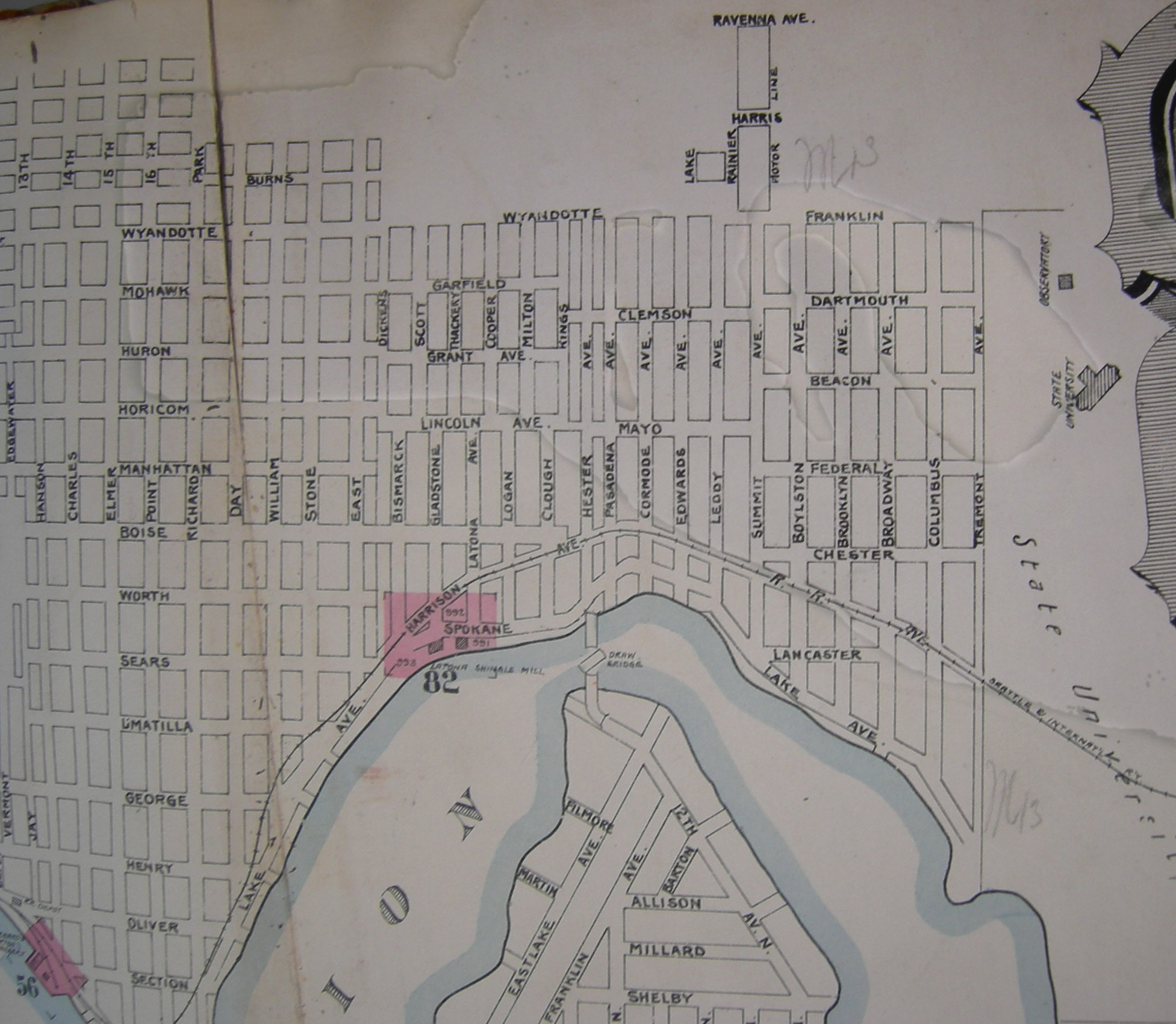 Part of key map, Seattle, Washington 1893 Volume 2, Sanborn-Perris Map Co. Limited, New York, (1893). Shows Lower Wallingford, Latona (now considered part of Wallingford), and Brooklyn (now the University District) before the street names were changed. So few street names remain that it can be a bit tricky to get oriented on this. It is compounded by the fact that many of these names now apply to other streets, the street plan near the water is quite changed, and bridges are in different places. That said, here are some pointers. The observatory at upper right (on the University of Washington Campus) remains in the same place. What was then "Brooklyn" is now 12th Avenue NE: see Paul Dorpat, Seattle Neighborhoods: University District -- Thumbnail History, HistoryLink, June 18, 2001. Wyandotte (a name only partly visible on this map) and Franklin Streets are now 45th Street. Part of Pasadena Avenue (or something near it) remains as Pasadena Place. Latona Avenue retains its name; the name "Latona" now also applies to what was then Cooper. So Tremont Avenue is now 15th NE, Columbus Avenue is now "The Ave." Broadway is now Brooklyn NE. A bit further west, the onetime Hester Avenue was later 6th and has been completely obliterated by Interstate 5. The former Stone Avenue has nothing to do with the present Stone Way (which I believe would be slightly west of anything on this map). The route of the railway here is now more or less the route of the Burke-Gilman Trail through this area. This is an image of a plastic-covered document: some reflections and also some shadow.